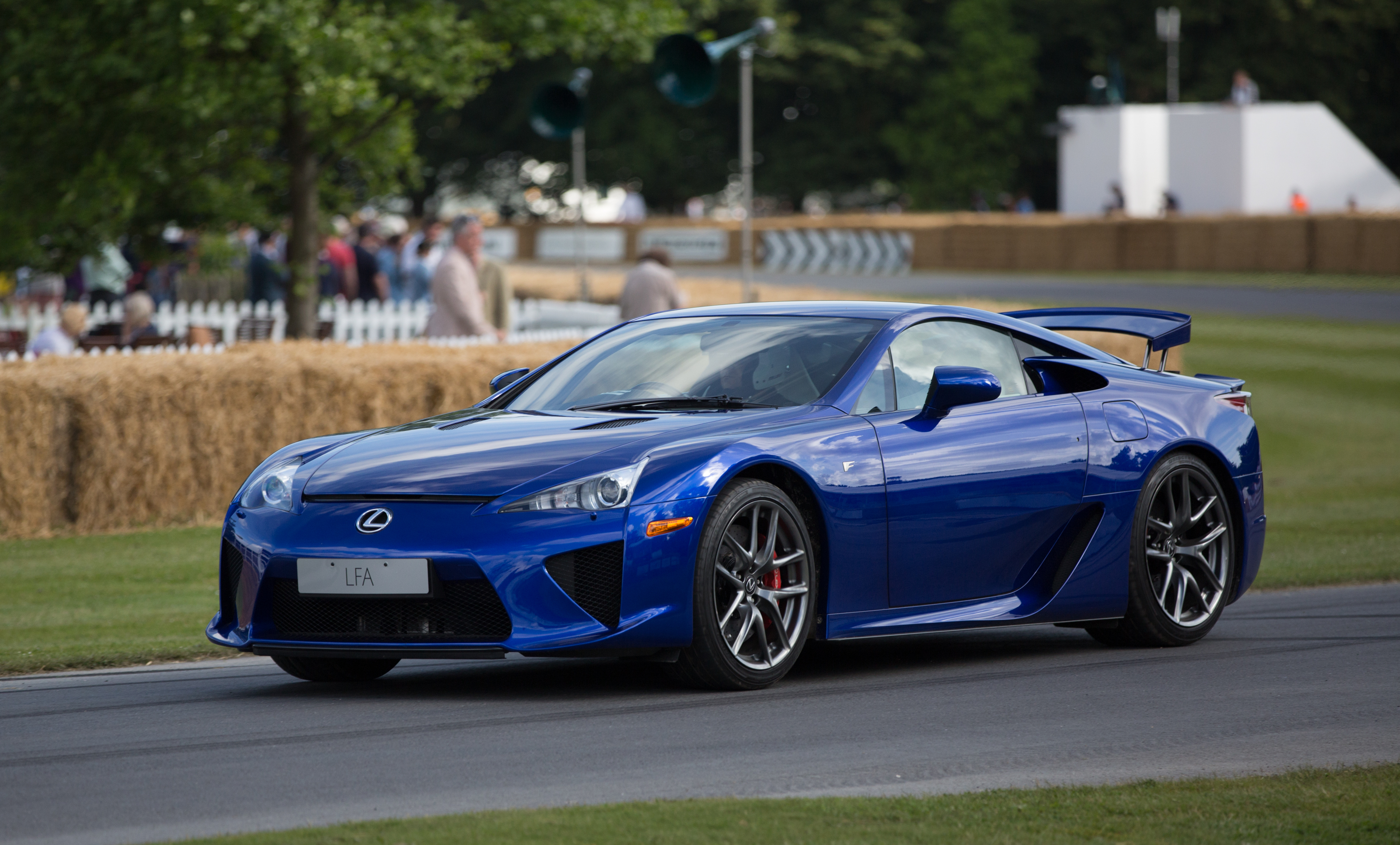 See more photos and video at